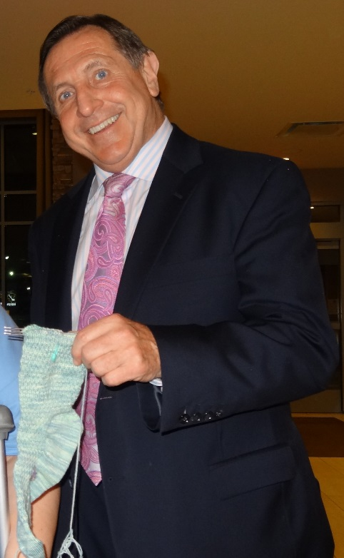 Pittsburgh Penguins assistant coach Jacques Martin following a 4-1 win over the Buffalo Sabres, October 5, 2013. Martin is pictured holding the sock that is knitted during games by Pens fan "the knitting lady".